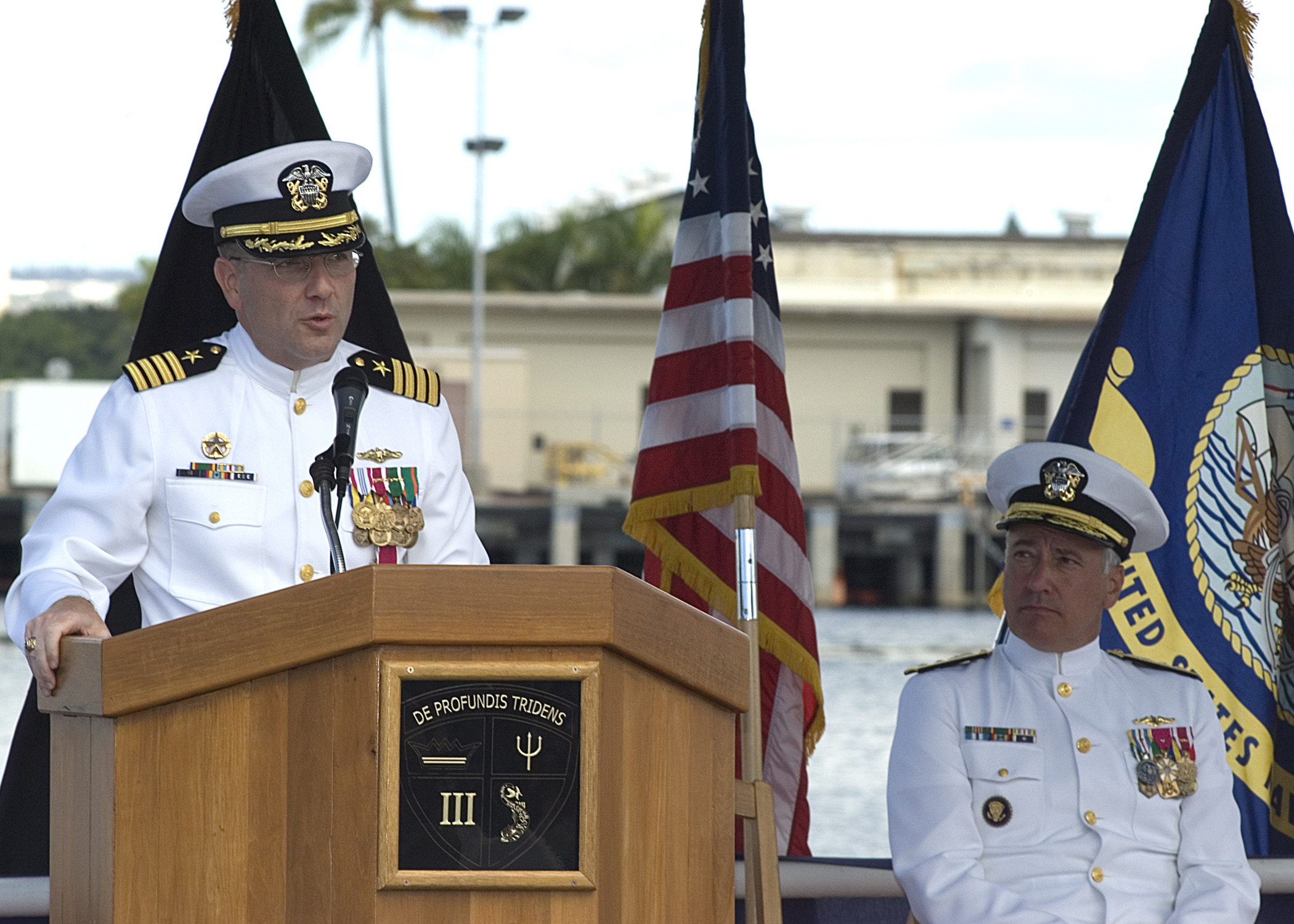 PEARL HARBOR, Hawaii (Sept. 6, 2007) - Capt. Joe E. Tofalo makes his final remarks as commanding officer of Submarine Squadron 3, during a change-of-command ceremony aboard USS Minneapolis-Saint Paul (SSN 708). Capt. Edward L. Takesuye relieved Tofalo as commanding officer of the attack submarine. U.S. Navy photo by Mass Communication Specialist 3rd Class Eric J. Cutright (RELEASED)